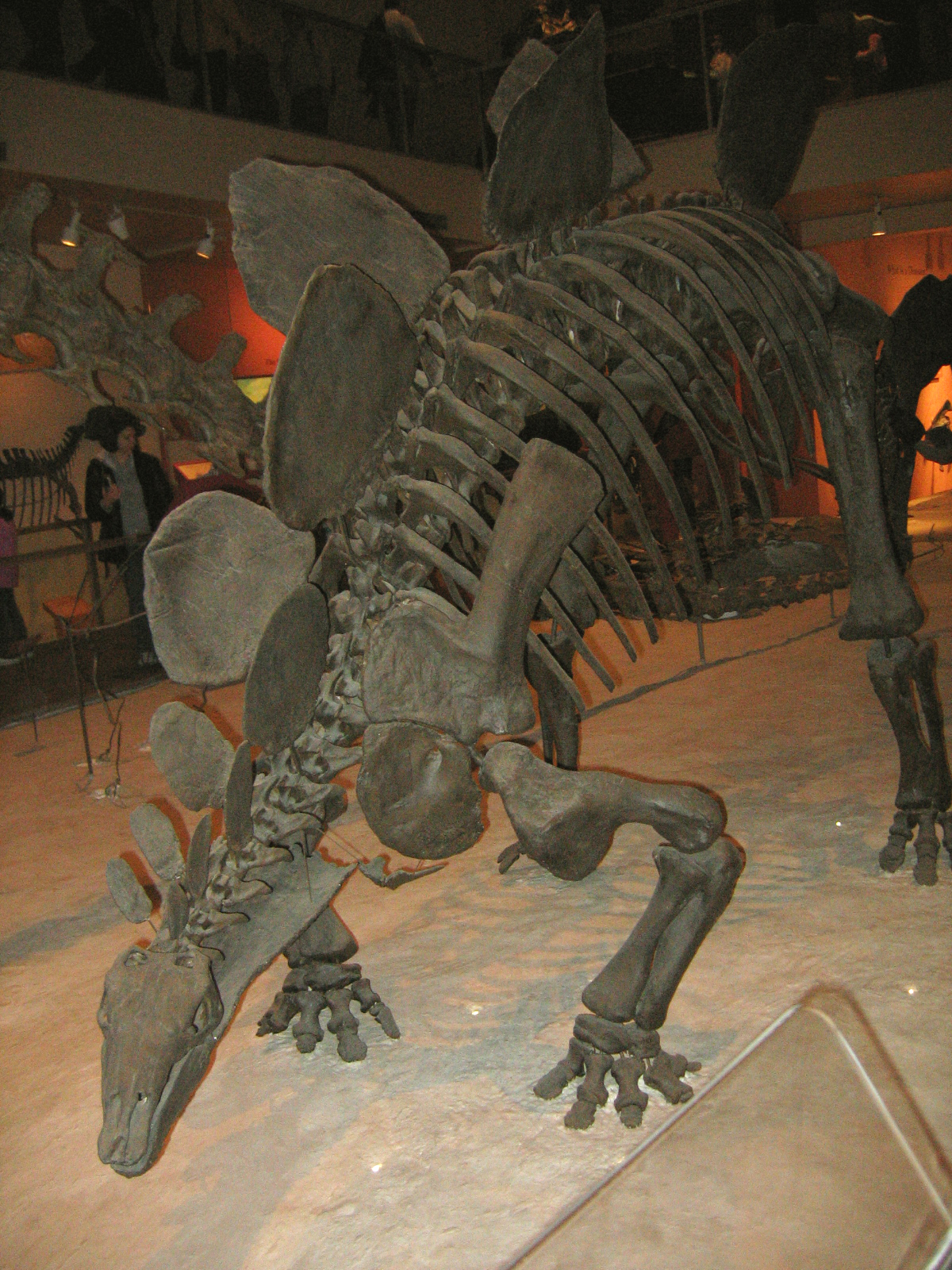 Stegosaurus fossil at the National Museum of Natural History, Washington, D.C.